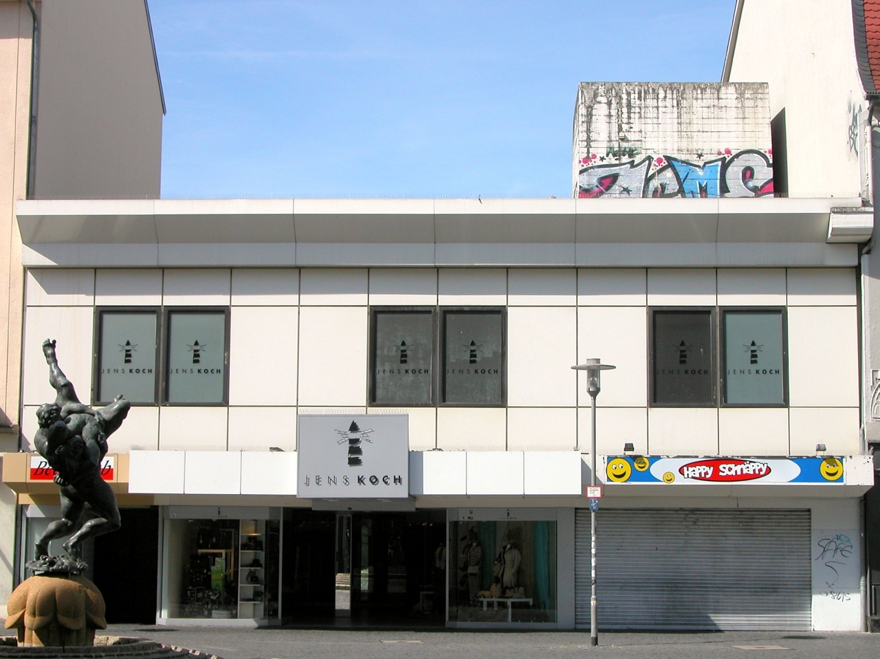 Brunswick, Germany: World War II Sack-Bunker (2007).